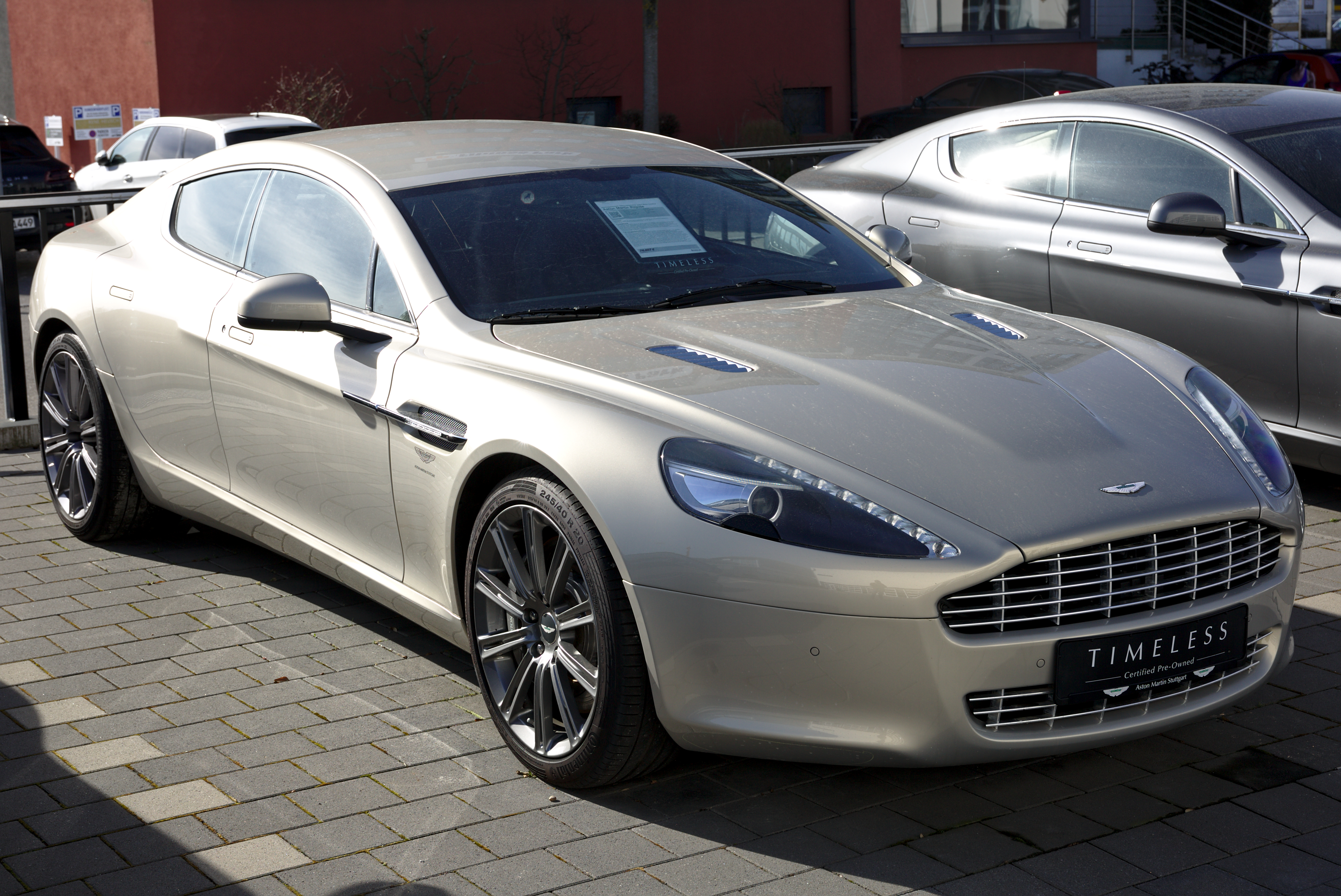 Aston Martin Rapide in Filderstadt